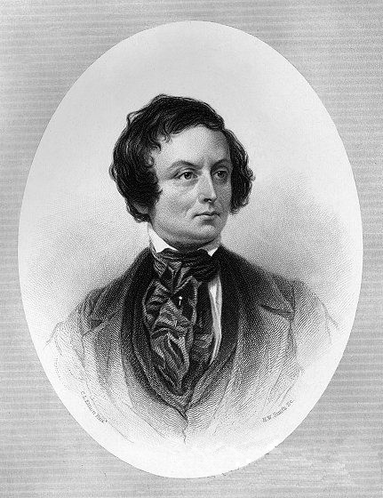 Frontispiece of Epes Sargent(1813–1881)